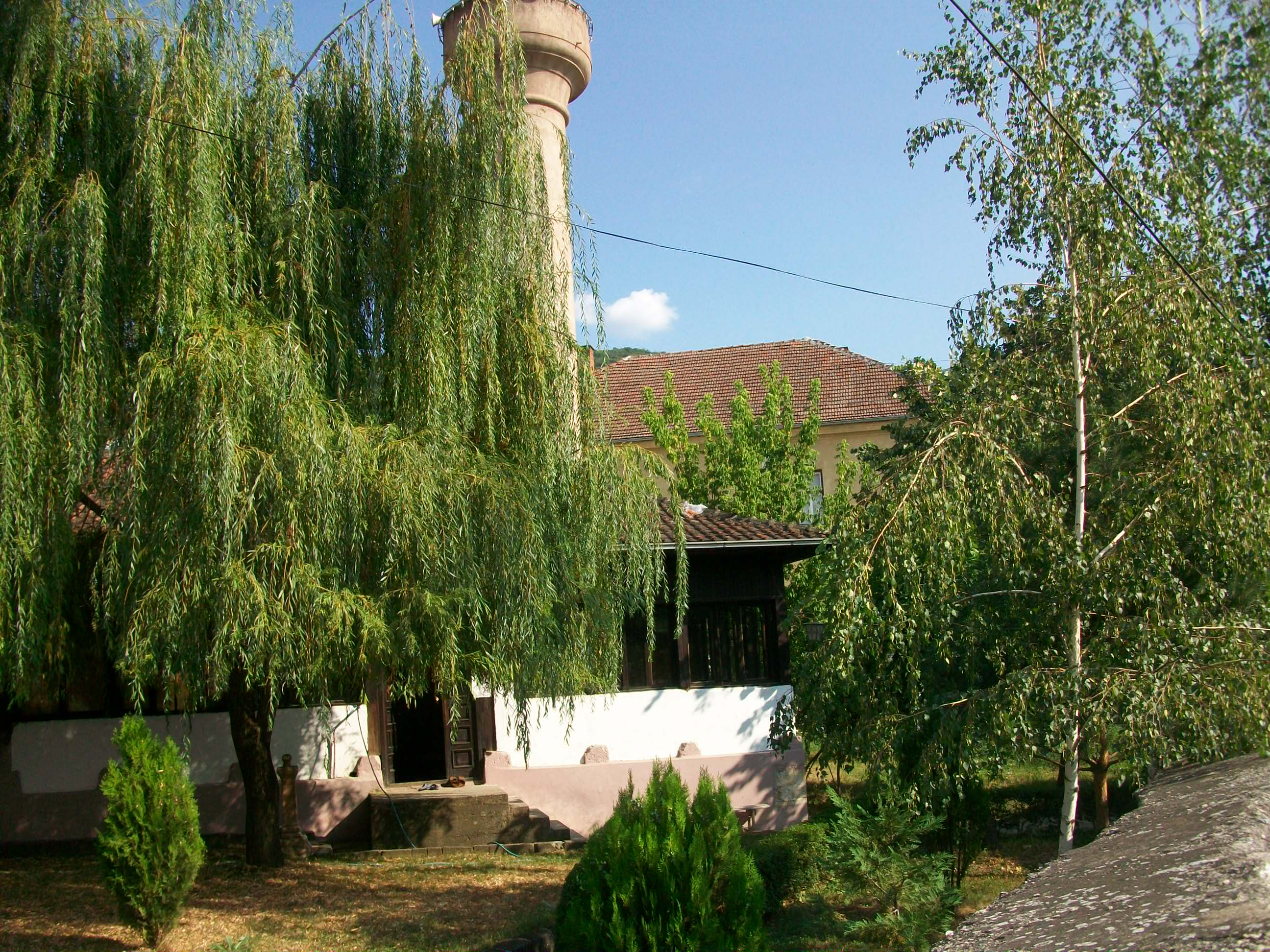 Pictures from Prizren Kosovo